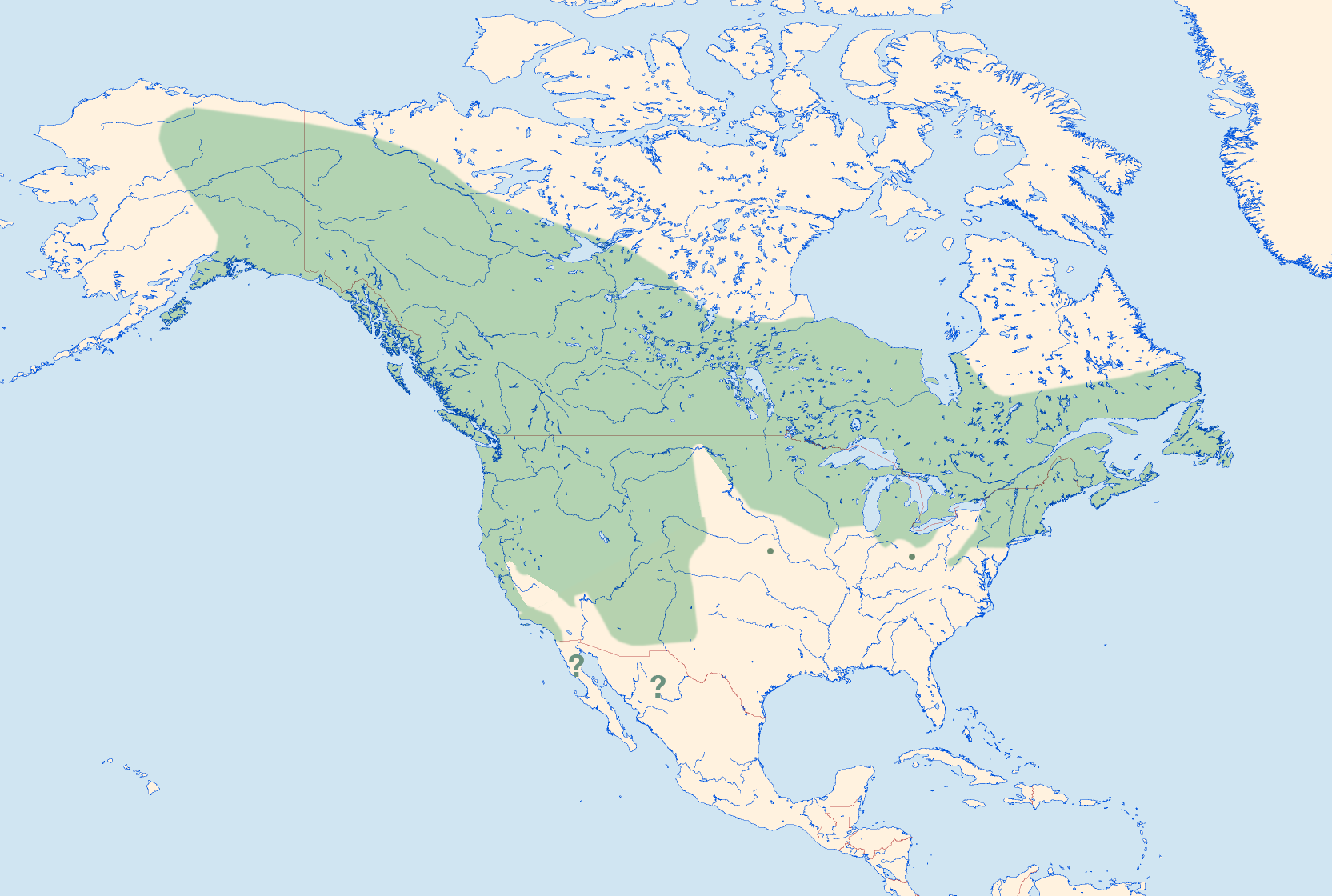 Distribution of Boreal Bluet (Enallagma signatum). Data Sources (In case of discrepancies in the map source the youngest in each data source was used): Dennis Paulson: Dragonflies and Damselflies of the East, Princeton Field Guides, Princeton University Press, New Jersey 2011, ISBN 978-0-691-12283-0. Dennis Paulson: Dragonflies and Damselflies of the West, Princeton Field Guides, Princeton University Press, New Jersey 2000, ISBN 978-0-691-12281-6.